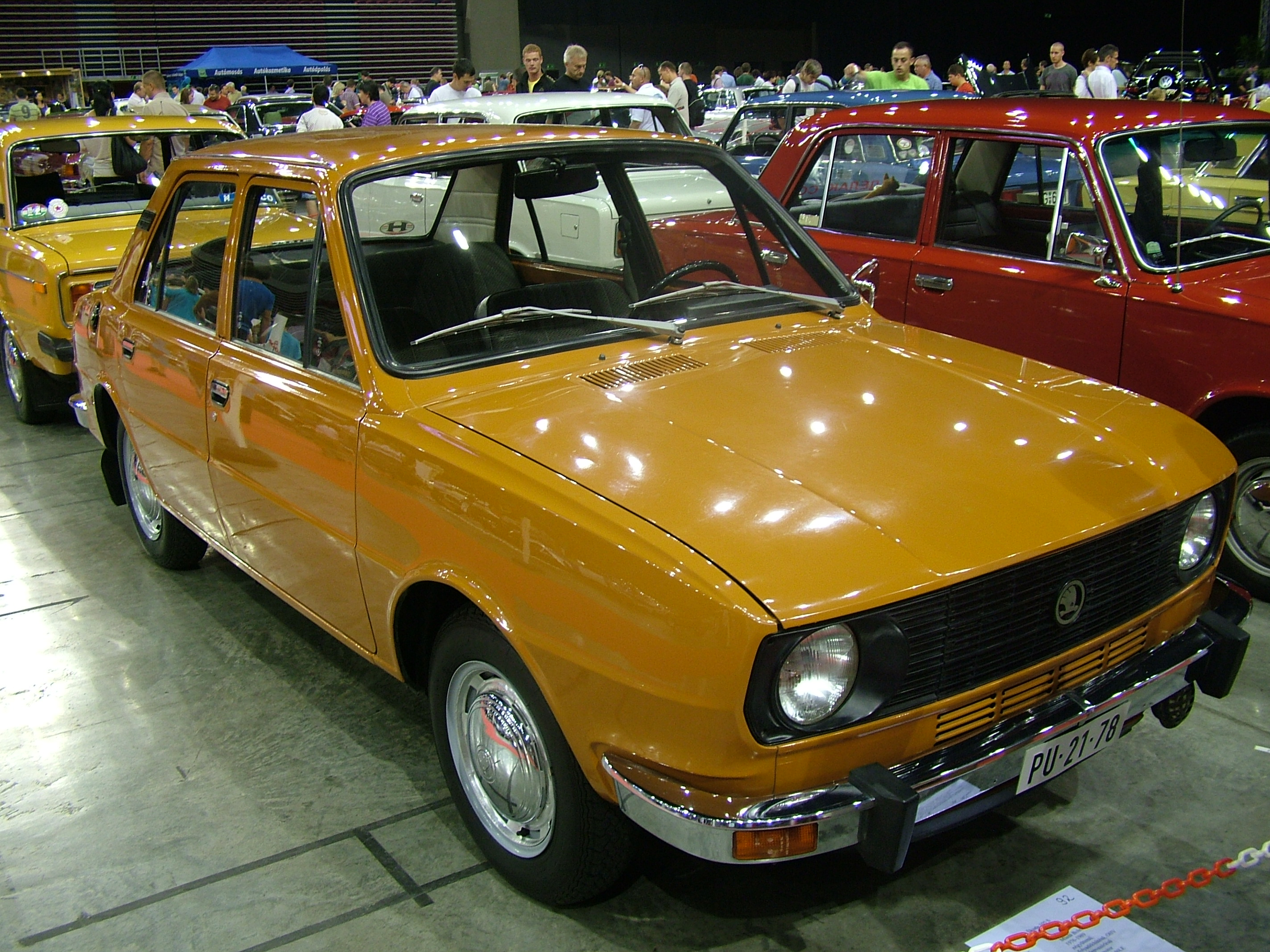 Škoda 105S, produced in 1980, at the I. International Oldtimer and Youngtimer Festival, Budapest, 2011.